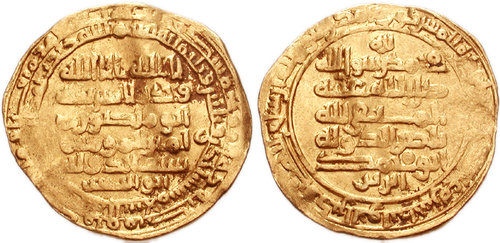 ISLAMIC, Syria & al-Jazira (Pre-Seljuq). Hamdanids. Nasir al-Dawla, with Sayf al-Dawla. AH 330-356 / AD 942-967. AV Dinar. Madinat al-Salam mint. Dated AH 331 (AD 943/4). Kalima across field; mint formula and AH date in inner margin / Continuation of Kalima across field and legends in outer margin. Cf. Album 747. VF, wavy flan. Very rare.